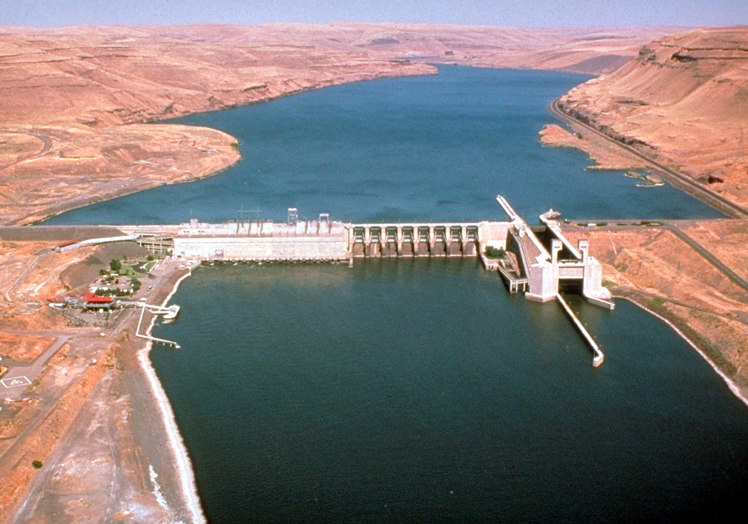 Lower Monumental Lock and Dam on the Snake River, Washington, USA. The river is the border between Franklin County to the north (left) and Walla Walla County (right). View is upriver to the northeast.